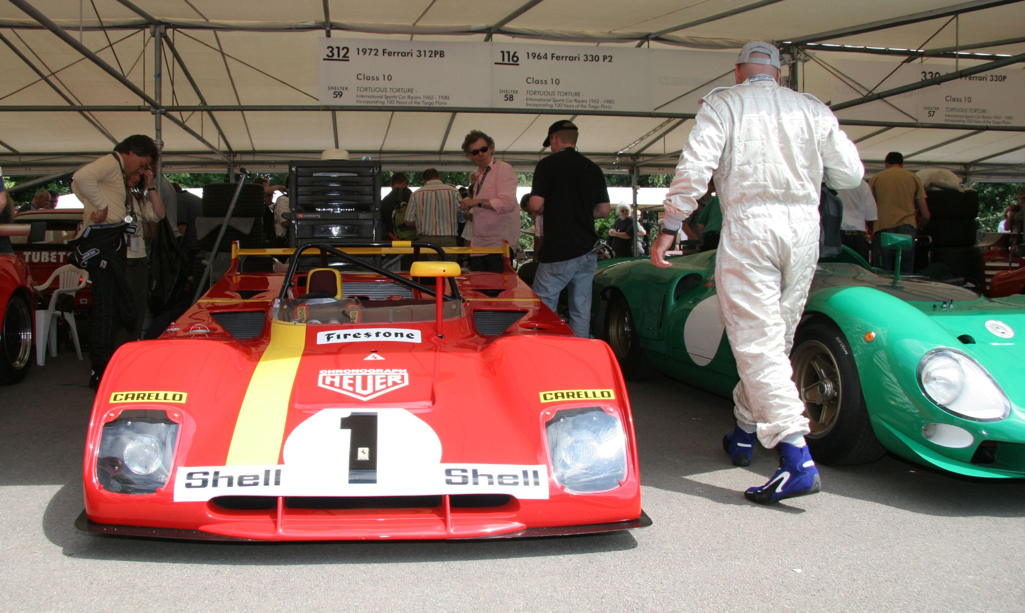 1972 Ferrari 312PB at the 2006 Goodwood Festival of Speed